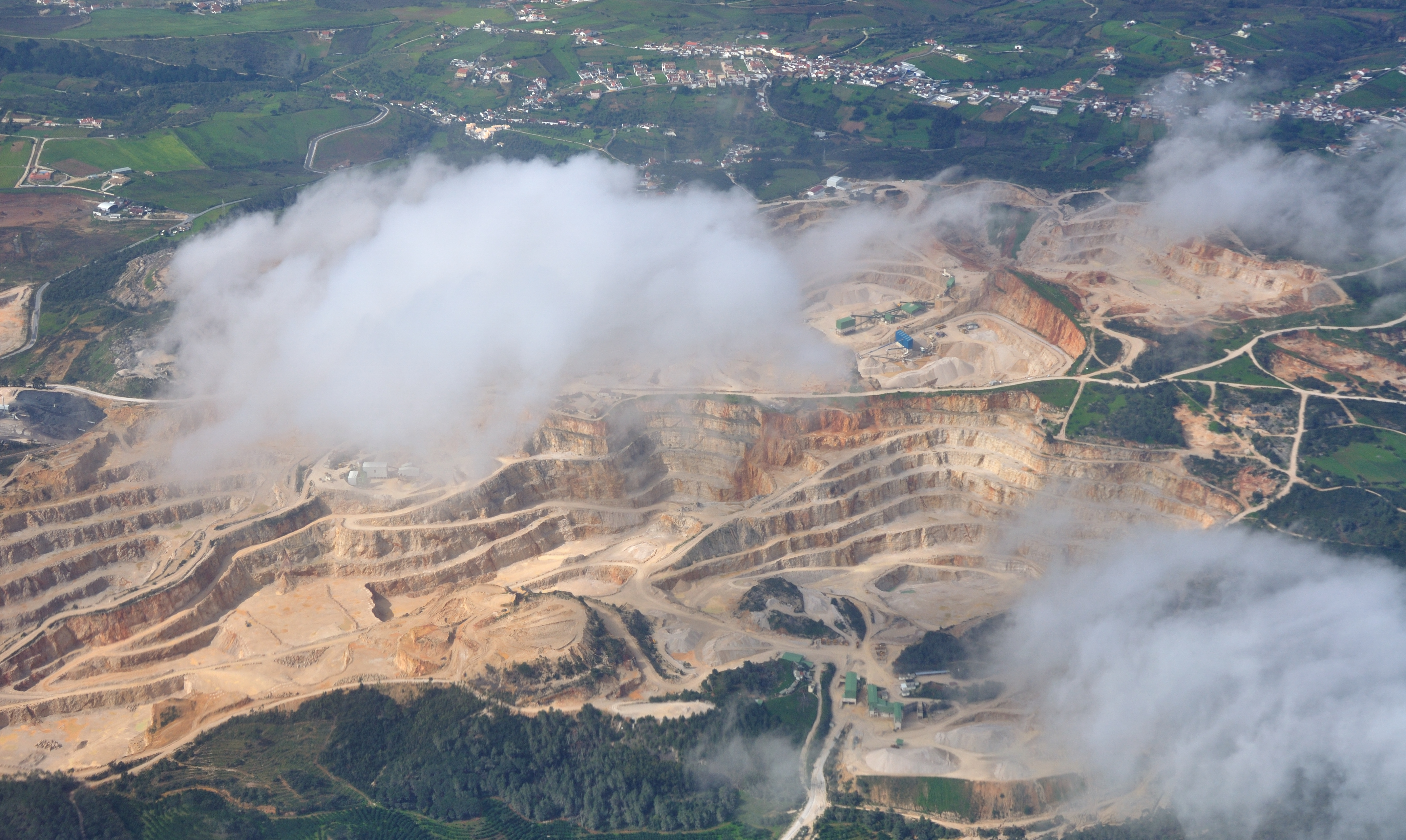 Portugal, Approach into Lisbon